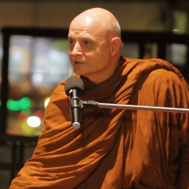 Ajahn Jayasaro in Bangkok on 11 December 2018